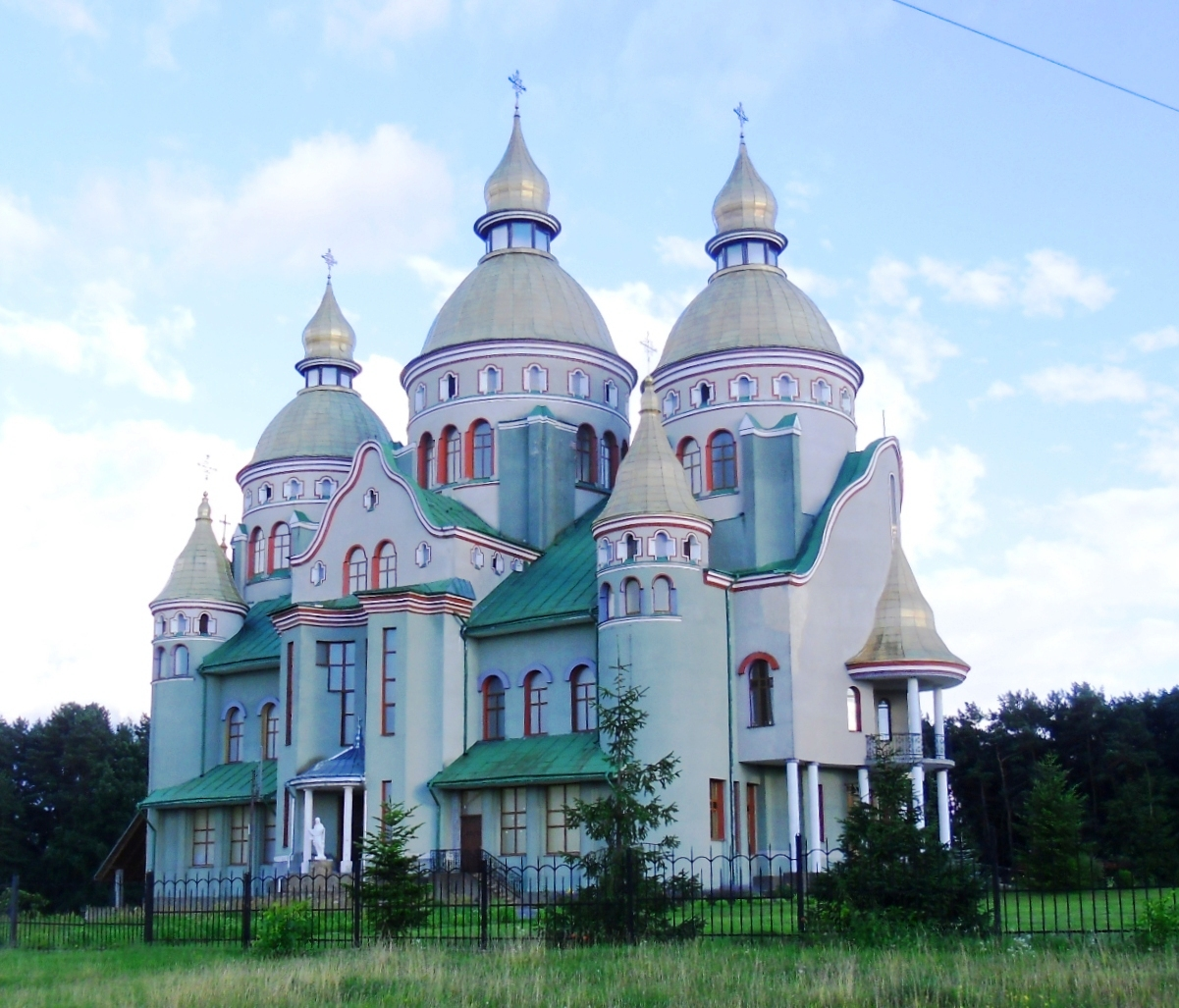 Ukrainian Greek-Catholic Church of Saints Volodymyr and Olha in the village Birky, Yavoriv Raion. Built and consecrated in 2010.